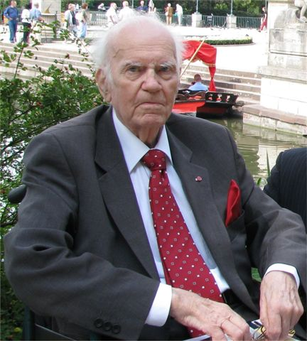 Juliusz Englert (b. September 7, 1927 in Warsaw, Poland - d. January 13, 2010 in London, Great Britain) – Polish photographer, editor and publicist, soldier of II World War. He lived in London, Great Britain